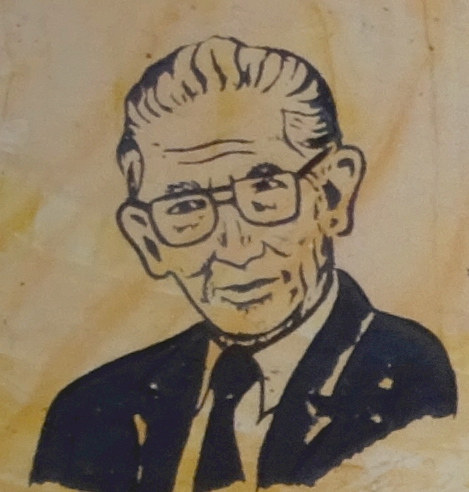 Portrait of archaeologist Eliécer Silva Celis in the Archaeology Museum of Sogamoso, founded by and named after him